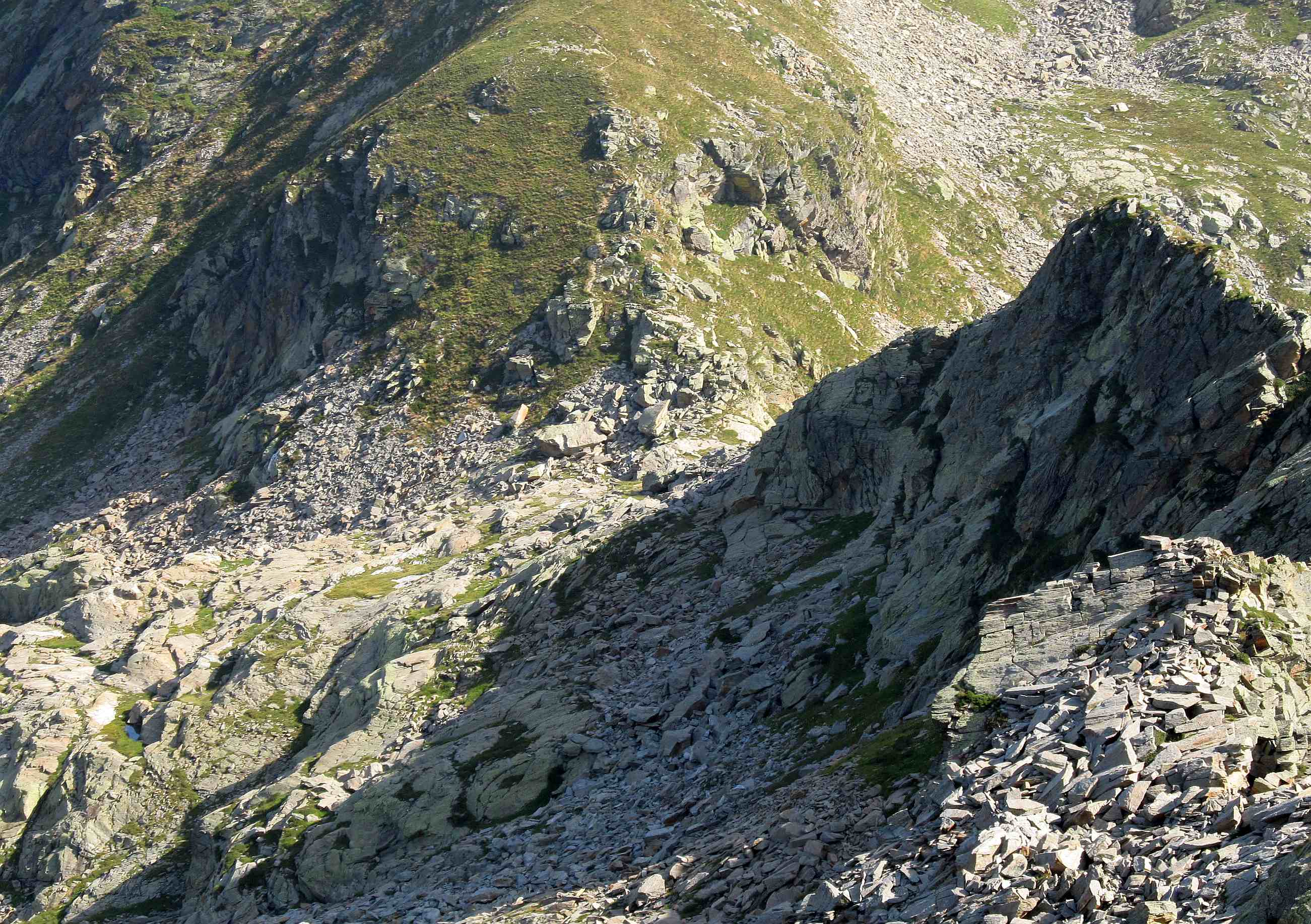 Barmo d'Oropa pass from monte Rosso